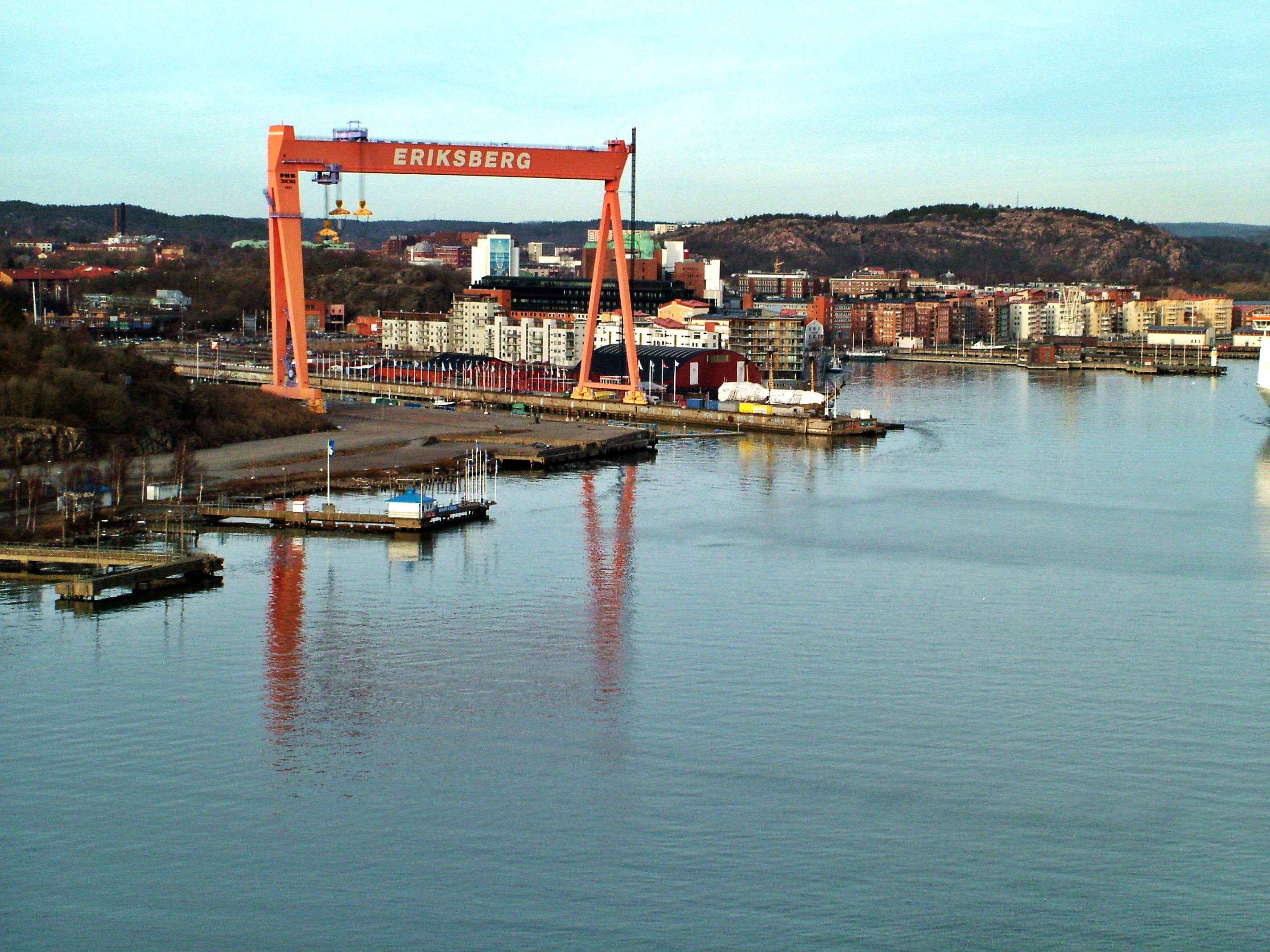 A picture of Eriksberg before it was build in to a huge residential complex